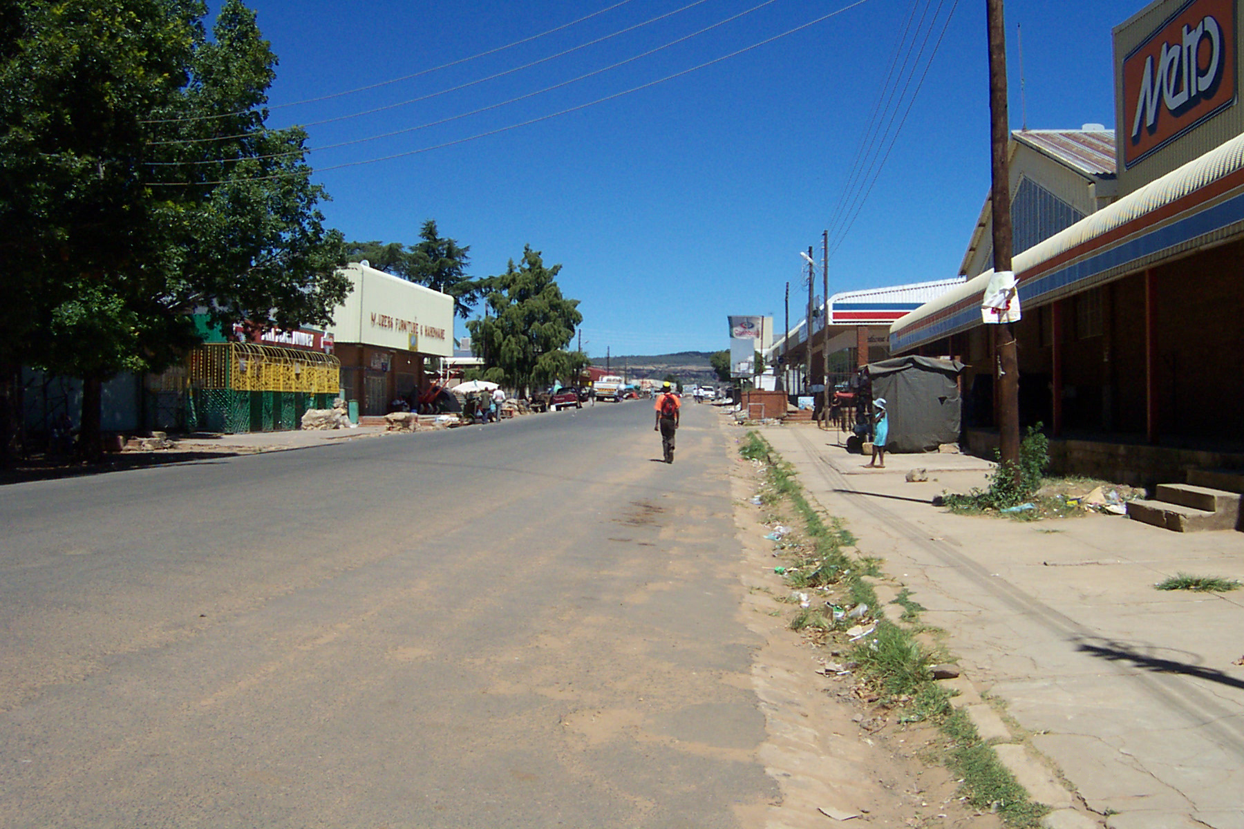 This is a picture of the central part of Hlotse. This part of the city is a street about a block long where most of the businesses and government offices are located. I took this picture myself while staying in Lesotho.